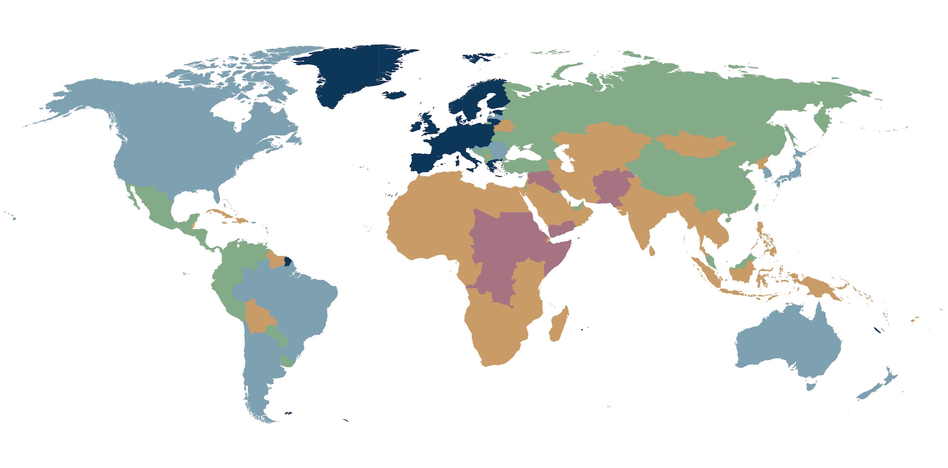 Quality of Nationality Index results geographic distribution